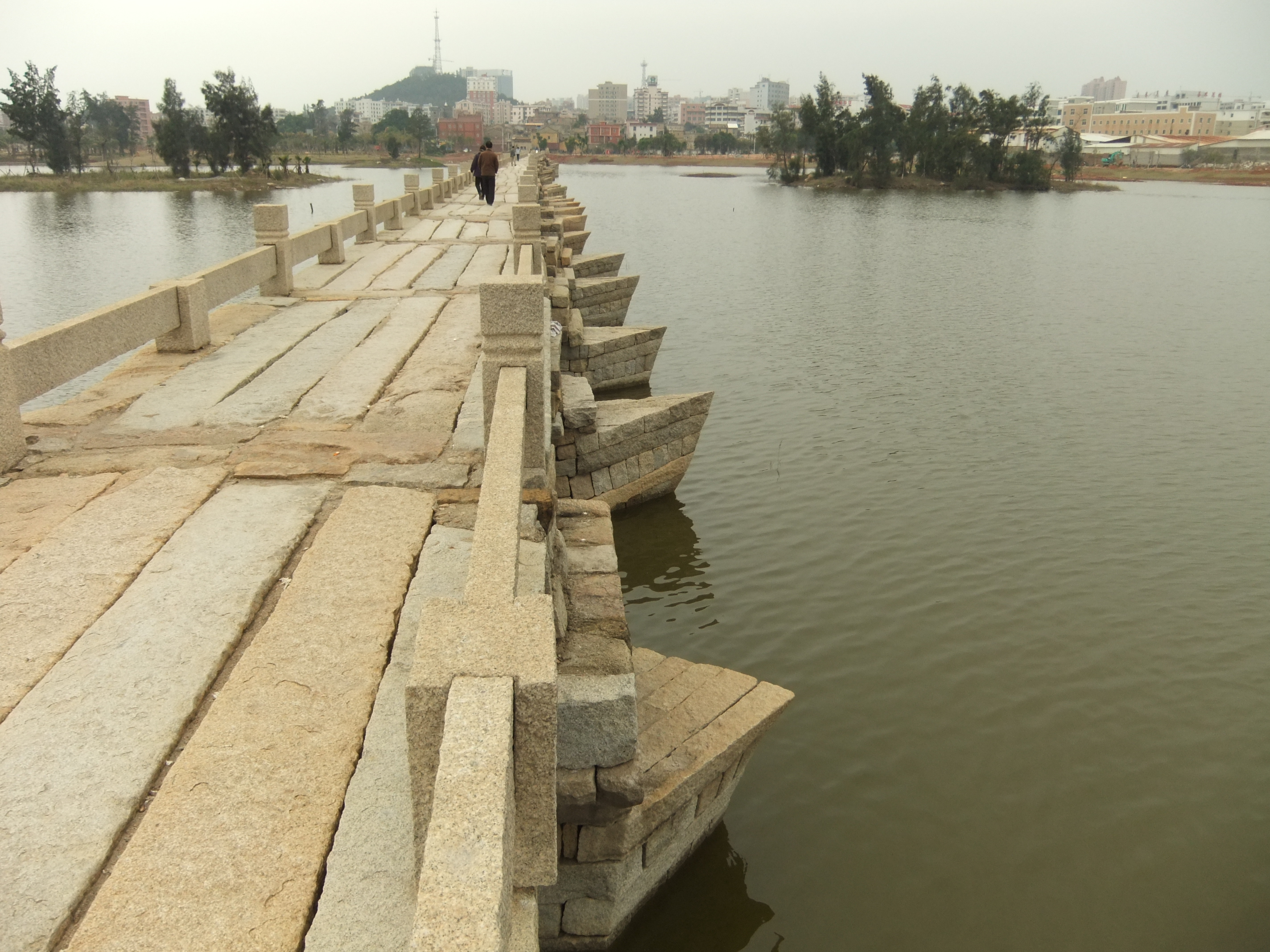 The pillars of Anping Bridge. (West-central section, between Shijinag River and Xinxing Gong